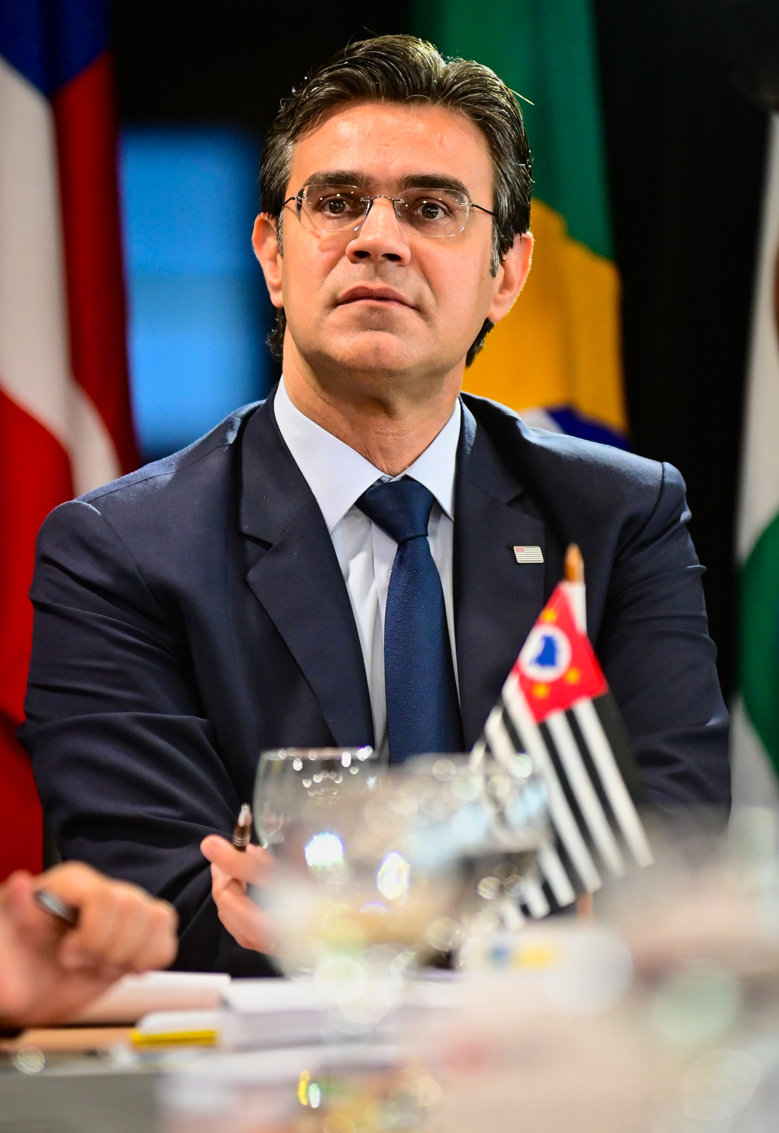 O governador em exercício do Estado de São Paulo, Rodrigo Garcia, participa do Fórum de Governadores. Local: Brasília/DF. Data: 06/08/2019. Foto: Governo do Estado de São Paulo